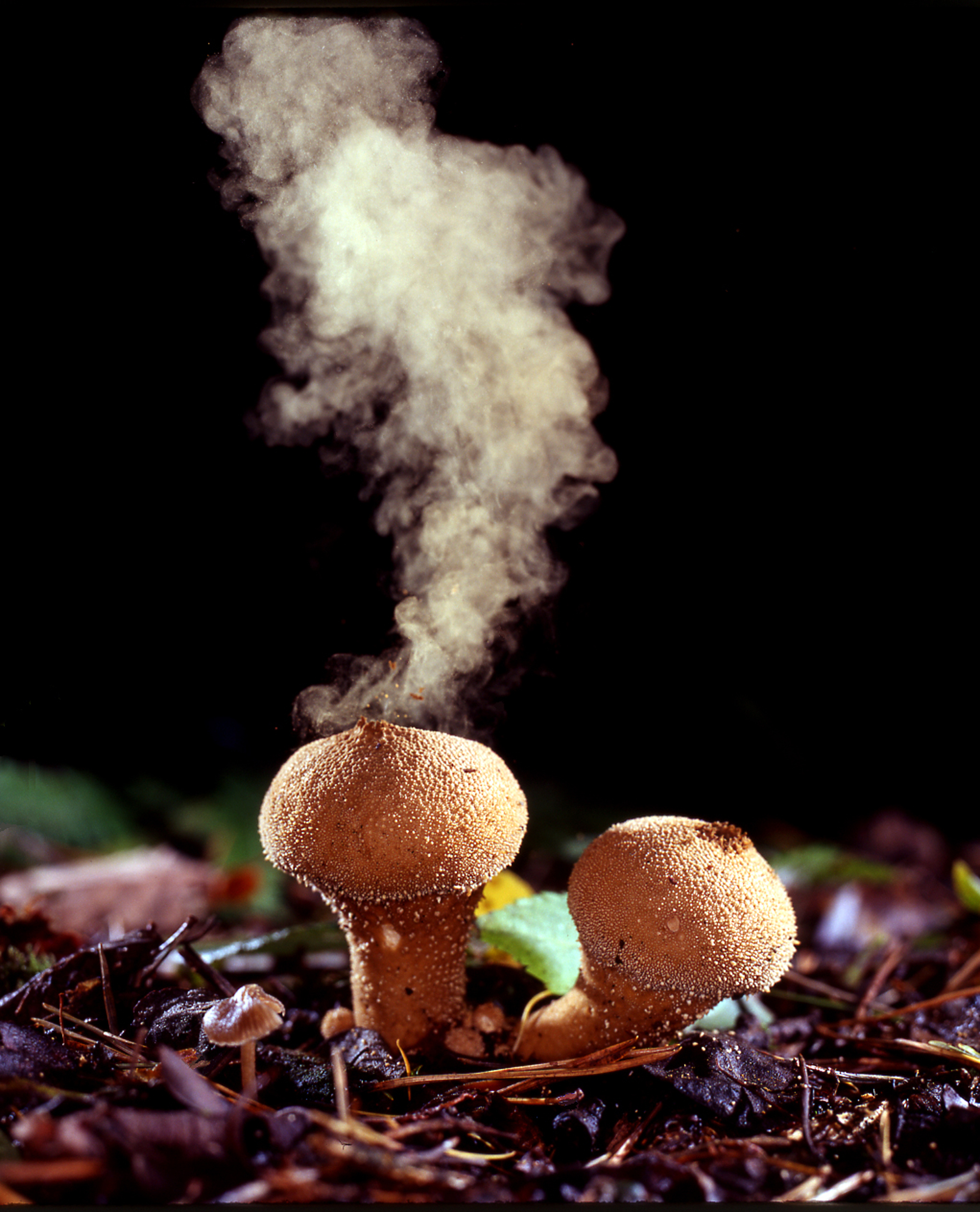 A common puffball emits spores.